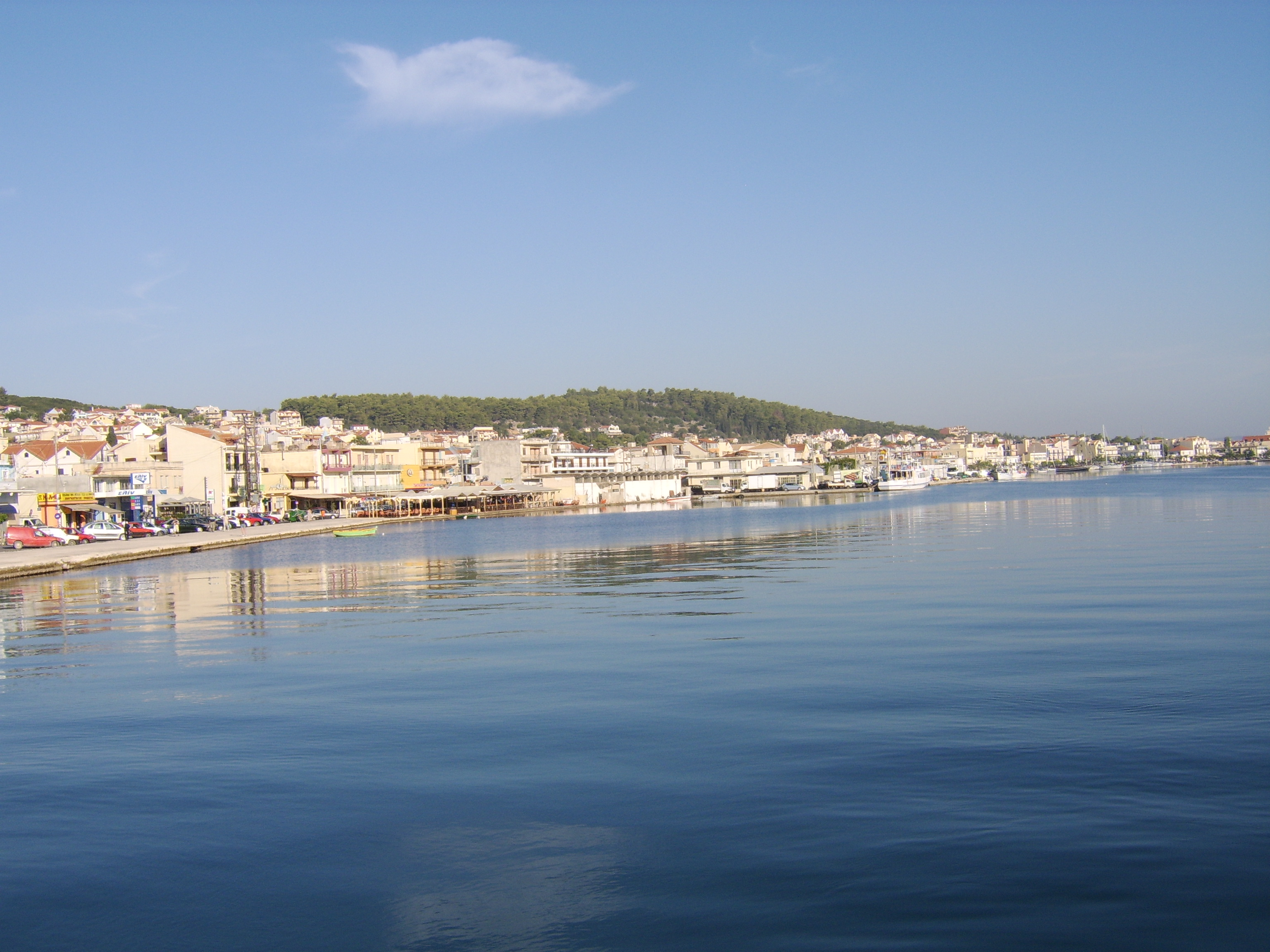 View on the city of Argostoli, Greece